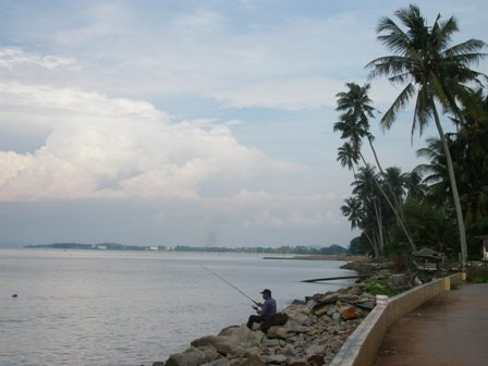 Title: Fishing is popular in Kuala Sungai Baru Taken by: Adiput Date taken: 17 November 2007